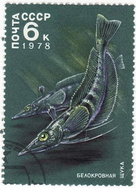 Stamp of the Soviet Union